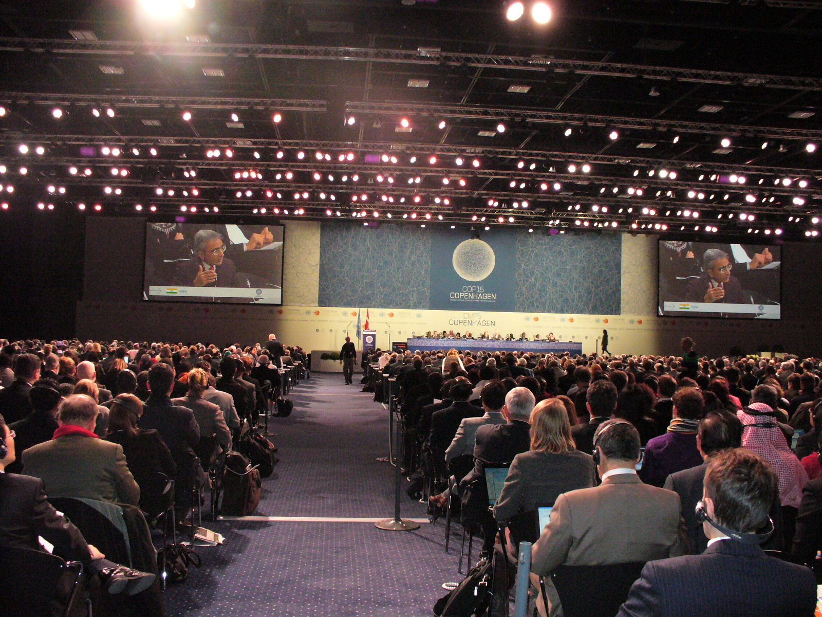 Alberto Rodríguez Saá COP 15 - 2010